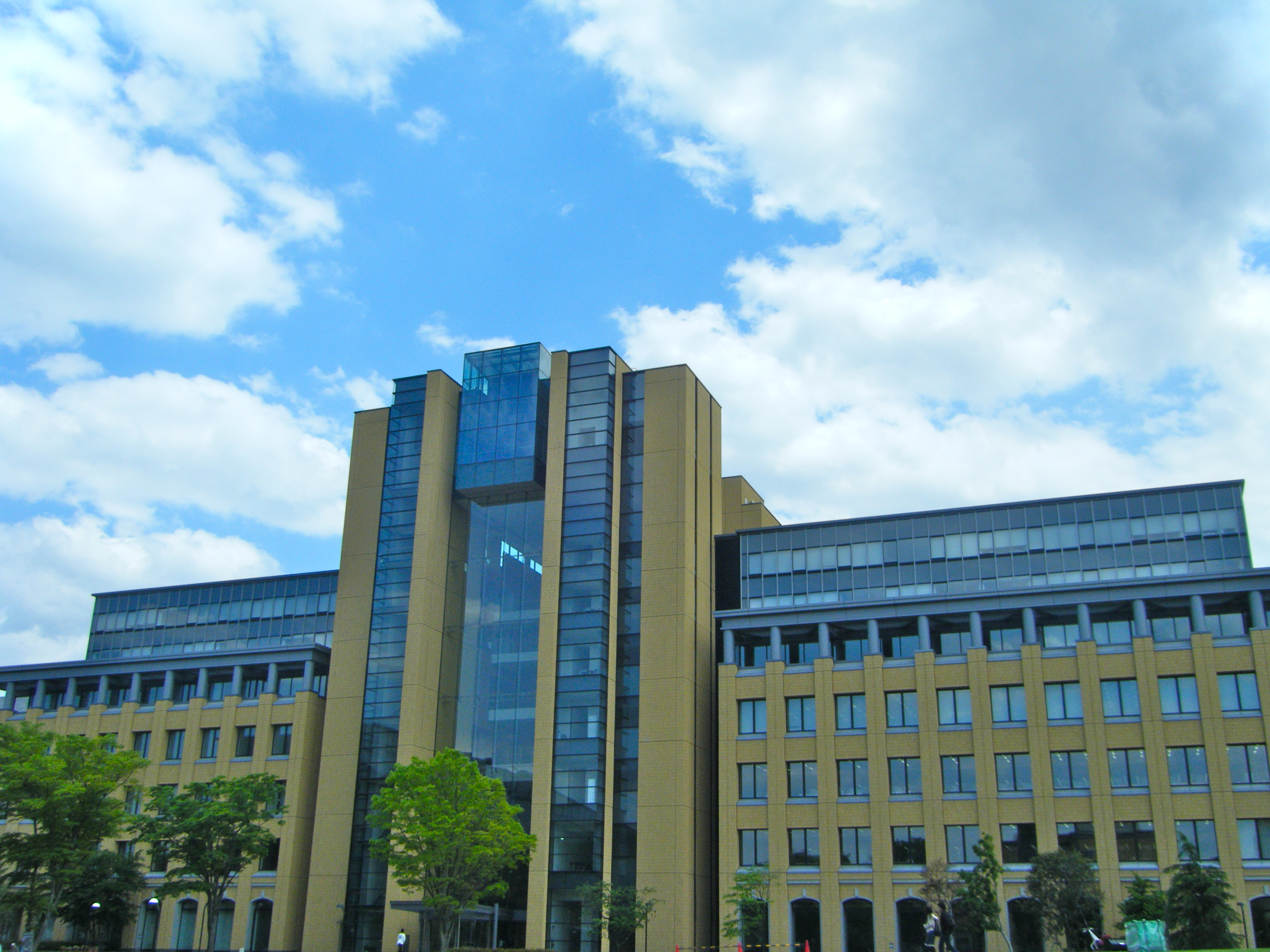 青山学院大学相模原キャンパスB棟、Aoyama Gakuin University Sagamihara Campus